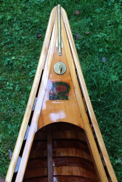 Deck of Peterborough canoe owned and restored by Fred Capanos